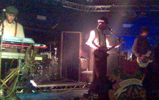 British indie rock band Envy & Other Sins performing on 3 February 2006.